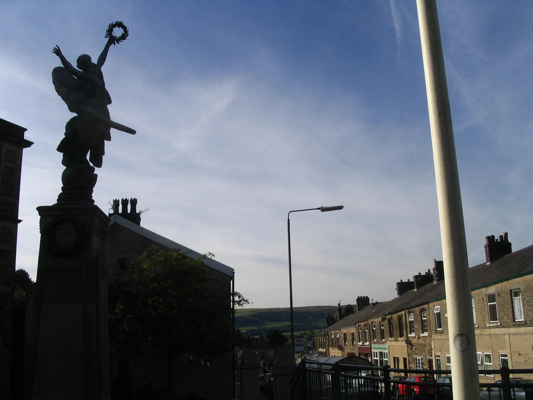 Hadfield in Derbyshire, showing the war memorial seen at the start of every League of Gentlemen episode.